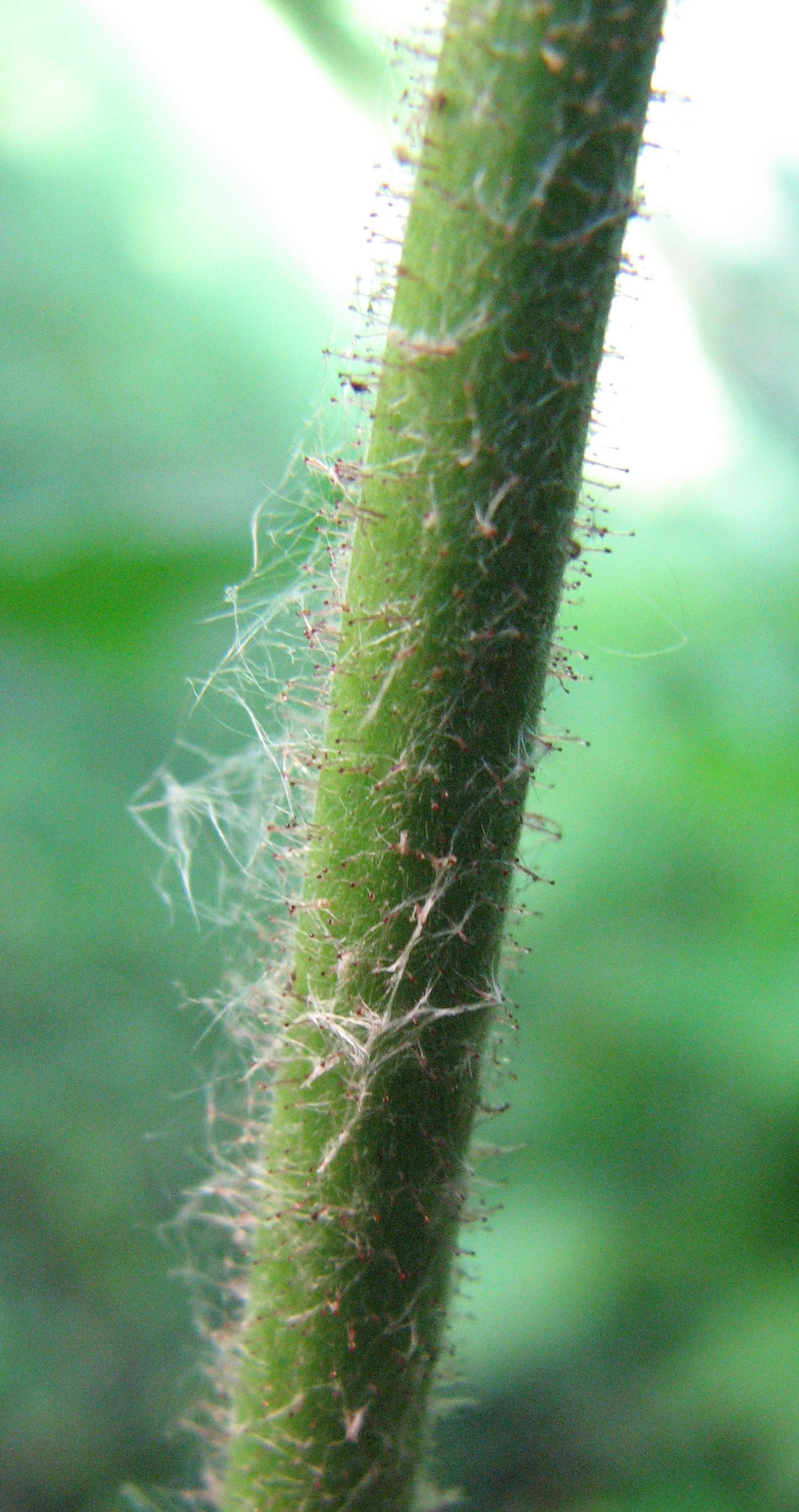 Rubus odoratus - hairy stem